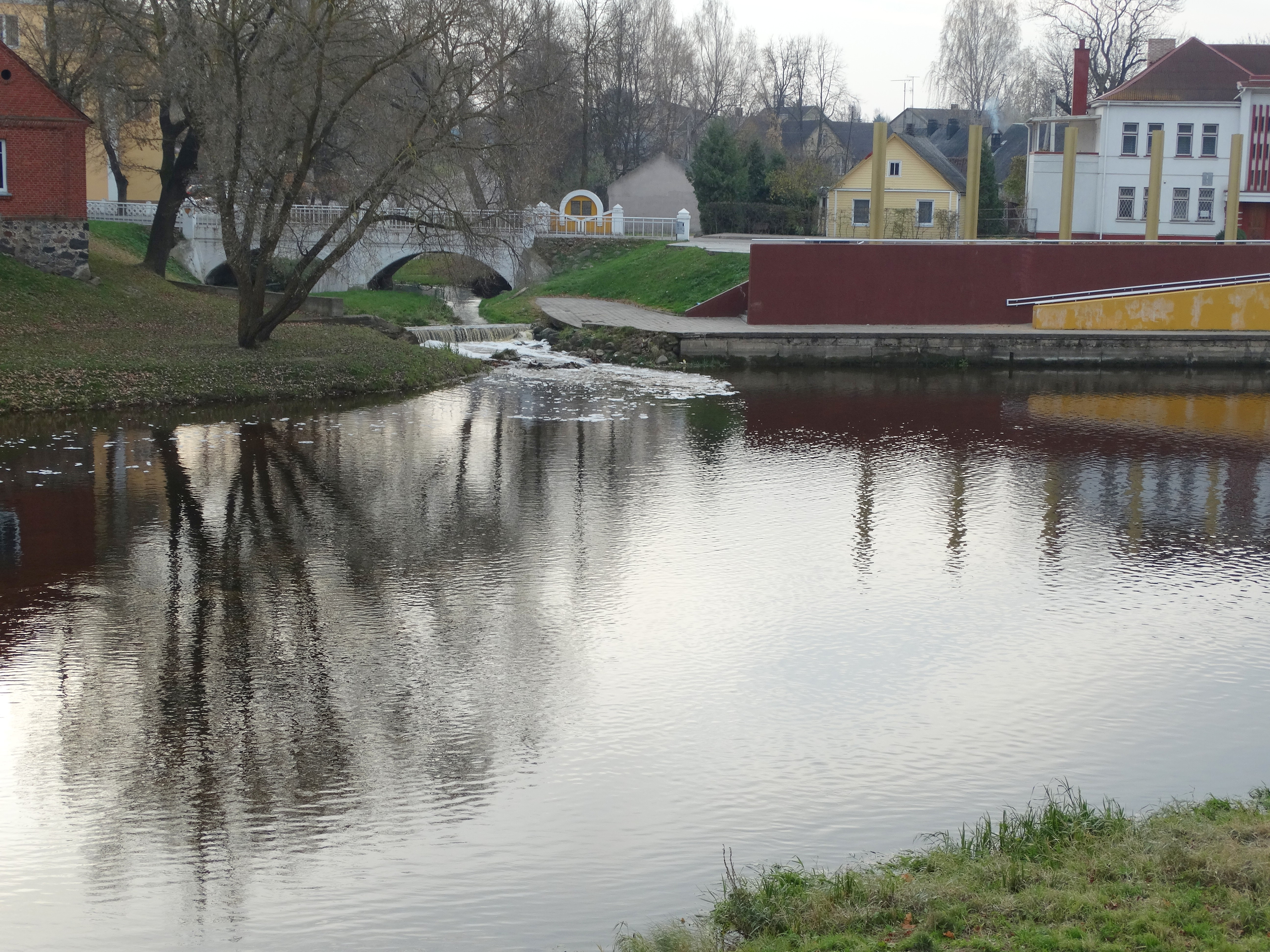 Confluence of Lėvuo and Svalia rivers, Pasvalys, Lithuania